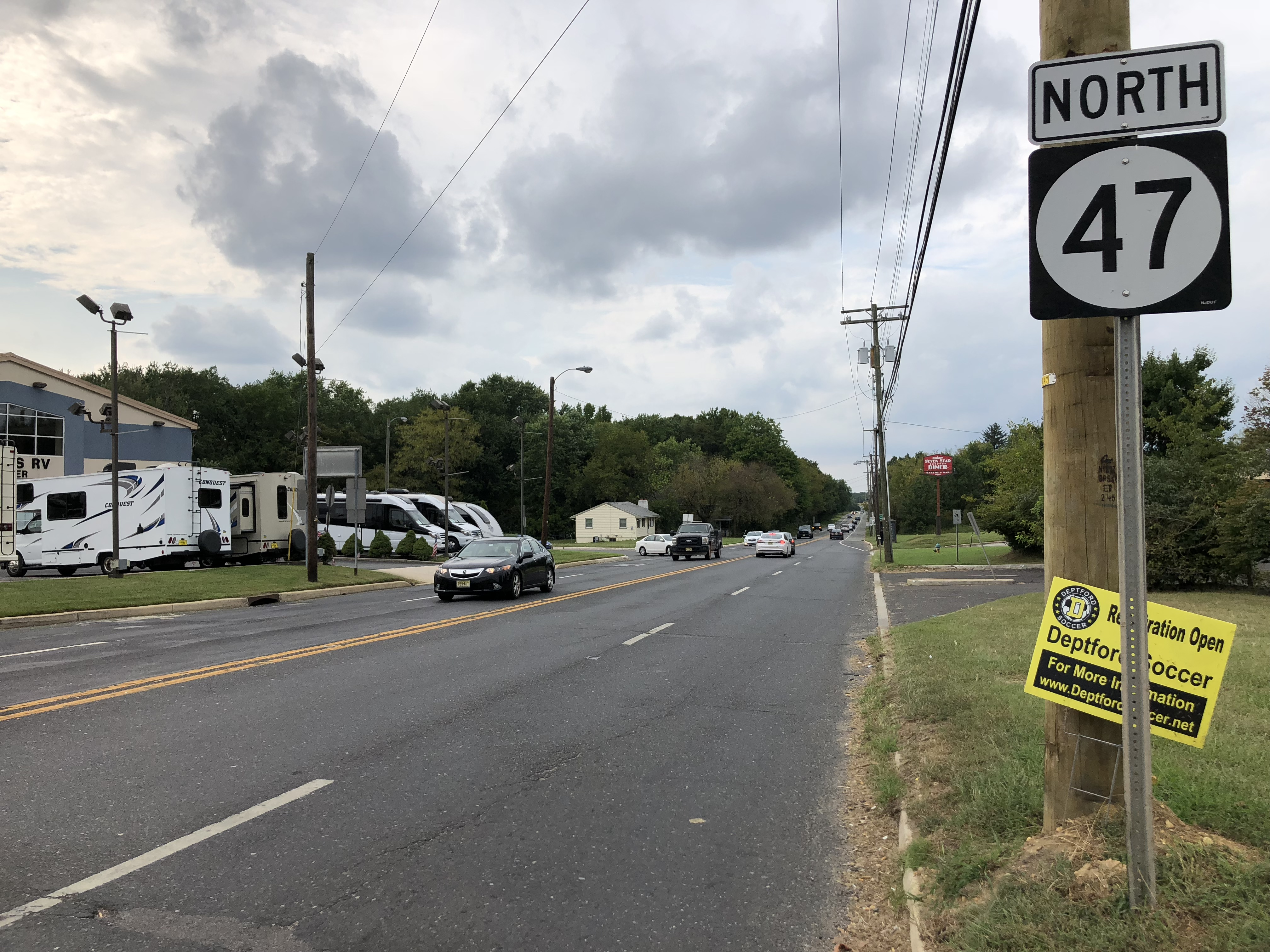 View north along New Jersey State Route 47 (Delsea Drive) just north of New Jersey State Route 41 (Hurffville Road) in Deptford Township, Gloucester County, New Jersey